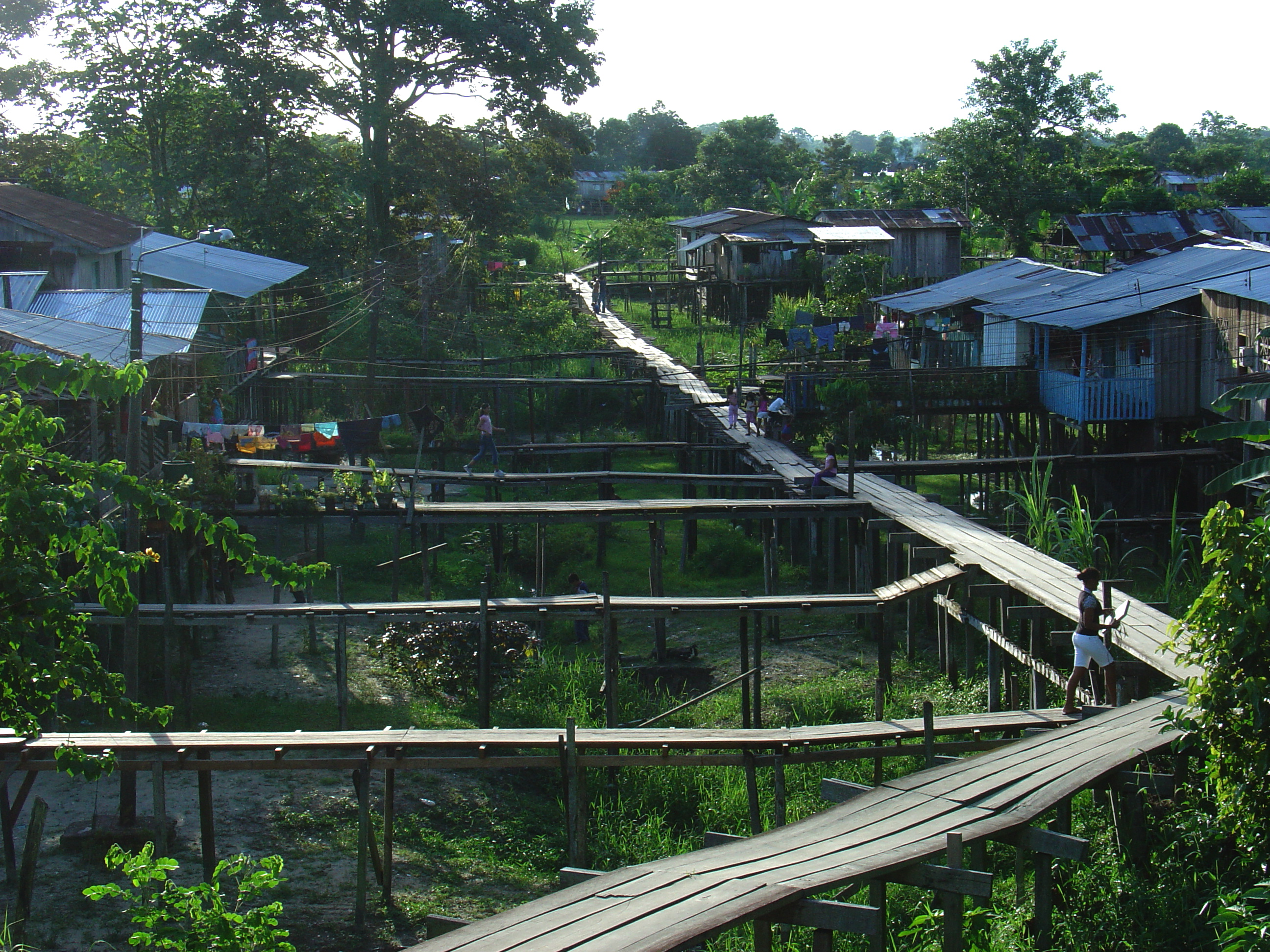 Houses and sidewalk platforms in Leticia, Colombia.